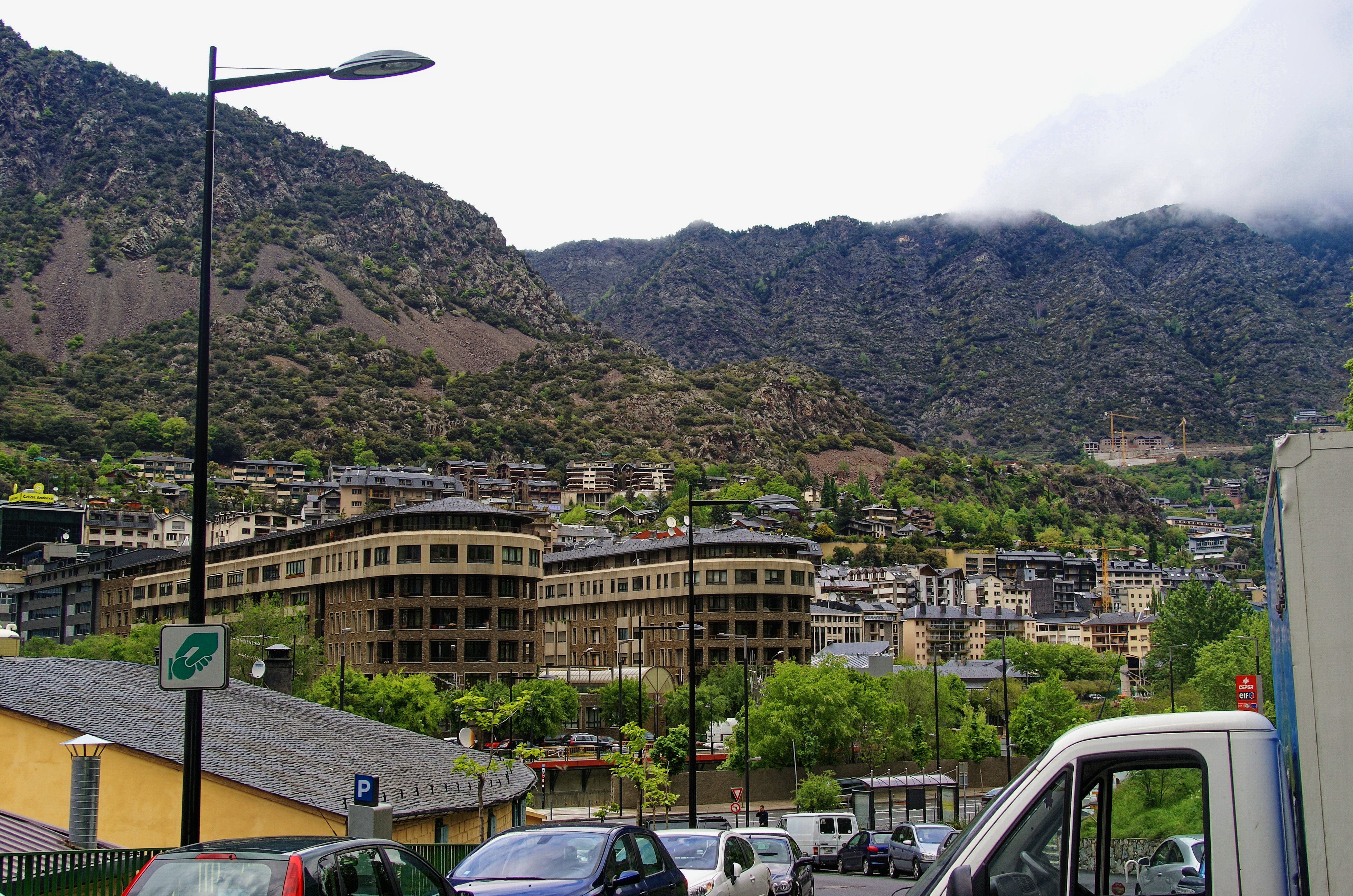 Andorra la Vella - Carrer de la Terra Vella - View NE